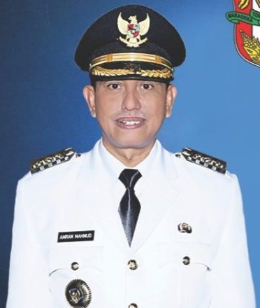 Amran Mahmud sebagai Bupati Wajo periode 2019-2024